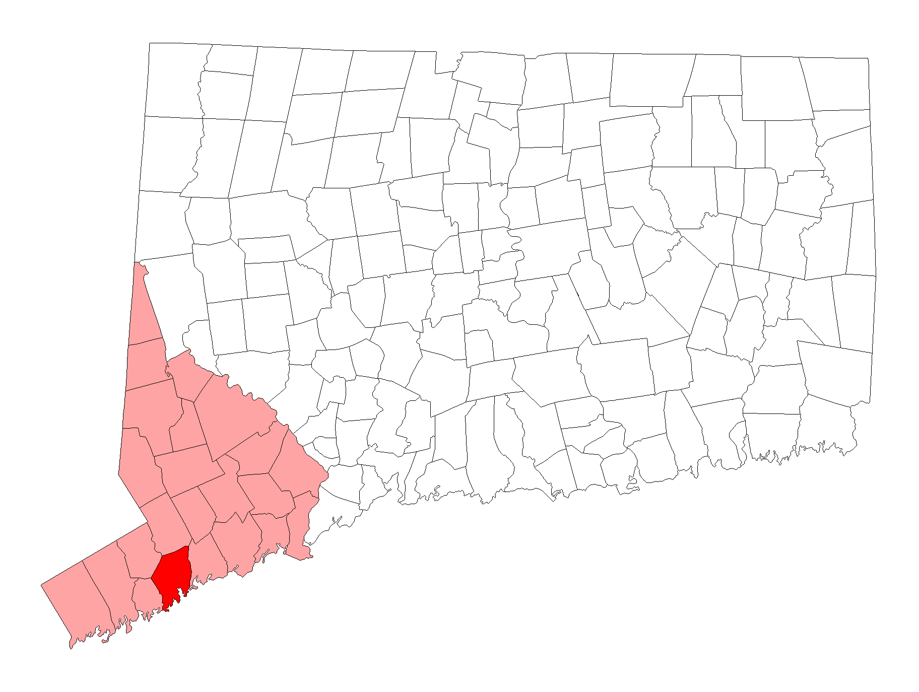 Graphic map of Connecticut illustrating unlabeled city/town outlines with Norwalk highlighted in crimson and Fairfield County highlighted in pale red.